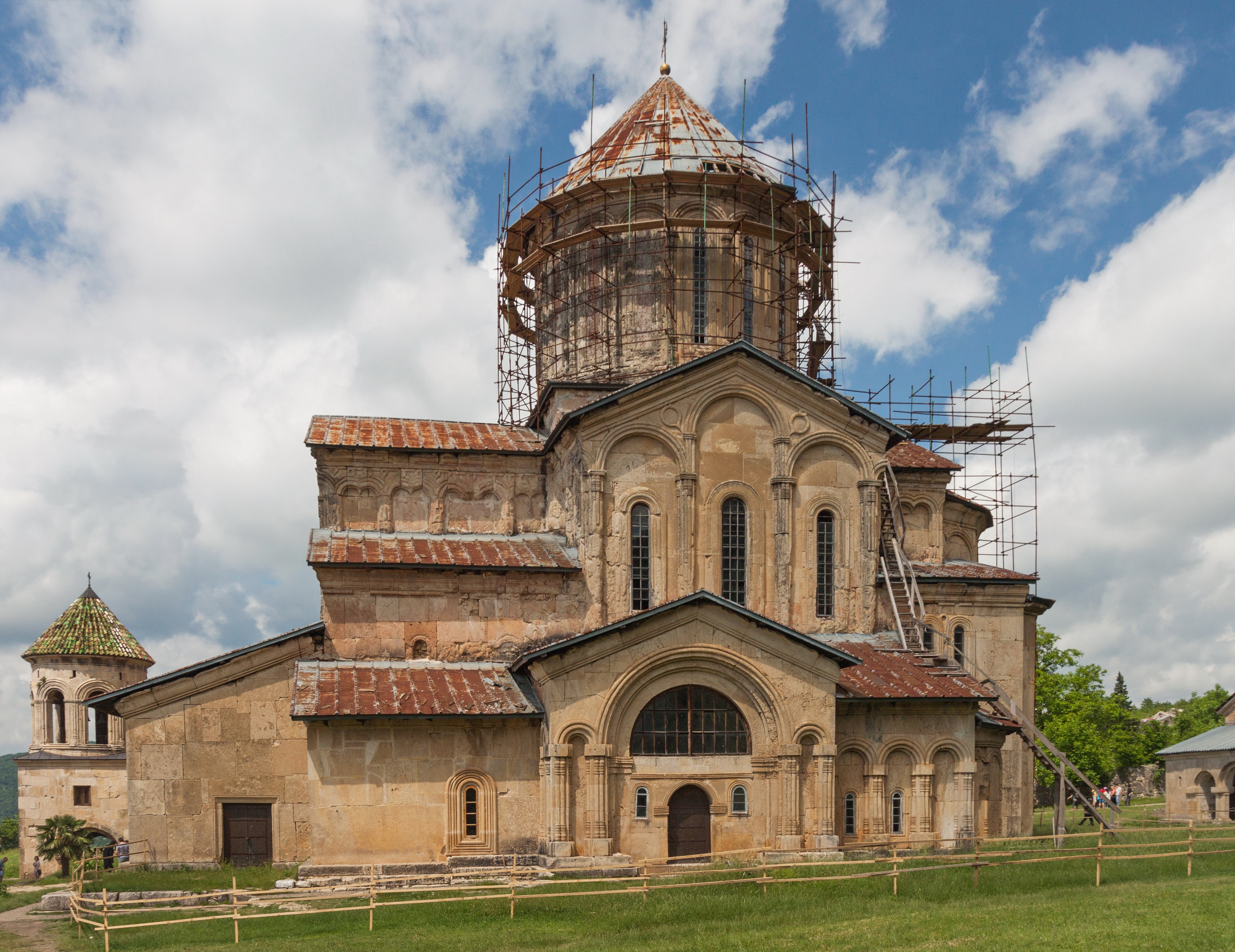 Gelati Monastery - Cathedral of the Nativity of the Virgin. Gelati, Tkibuli Municipality, Imereti, Georgia.